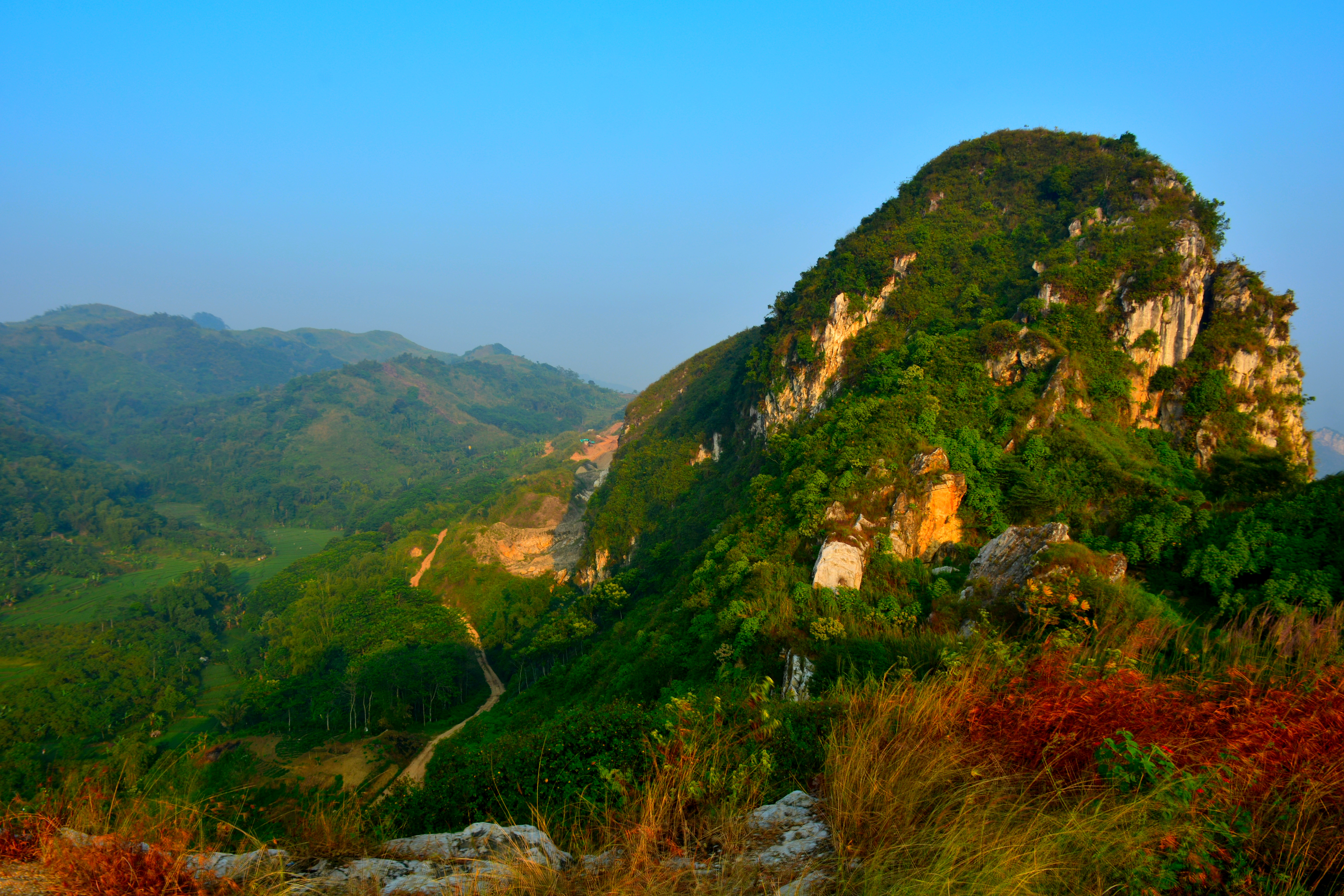 This is a view taken from the top of Mount Hawu in West Java